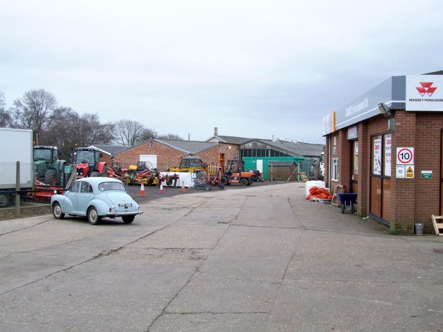 Boston Road, Spilsby. The site of the former Spilsby Station and goods yard, which closed for passengers at the beginning of WWII in 1939. Freight traffic continued though in decline. An upsurge in 1956 was the result of incoming cement products for the aerodrome expansion at East Kirkby, but in 1957 concerns were raised about the state of the railway bridge over the Steeping River. Estimates for a replacement were £20,000, so the railway succumbed to closure and the last locomotive left the branch line on 30th November 1958. The link to the Great Northern Railway closed the following day. The site is now occupied by Chandlers (Farm Equipment) Ltd.